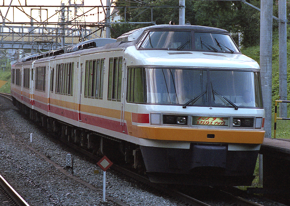 JR East 165 series "Panorama Express Alps" Joyful Train EMU at Nishi-Kokubunji Station